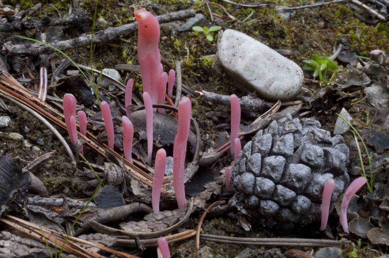 Clavaria rosea Fr. Location: Pend Oreille Co., Washington, USA Observation Notes: For more information about this, see the observation page at Mushroom Observer.